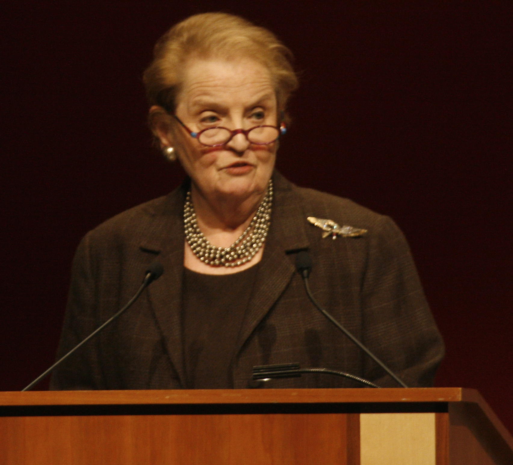 Former Secretary of State Madeleine Albright speaking at the "Pass the Baton" event in Washington, D.C. The event was sponsored by the US Institute of Peace.